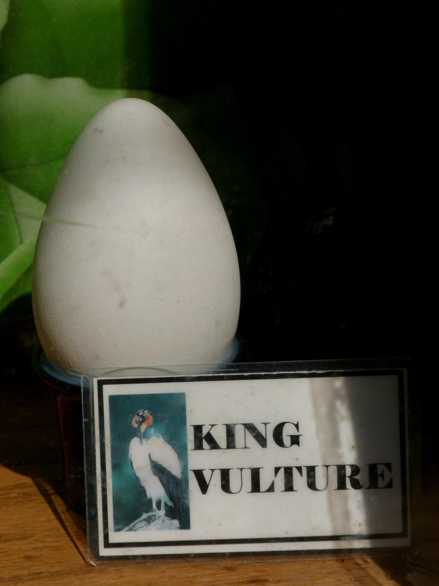 Brevard Zoo, Australian Section